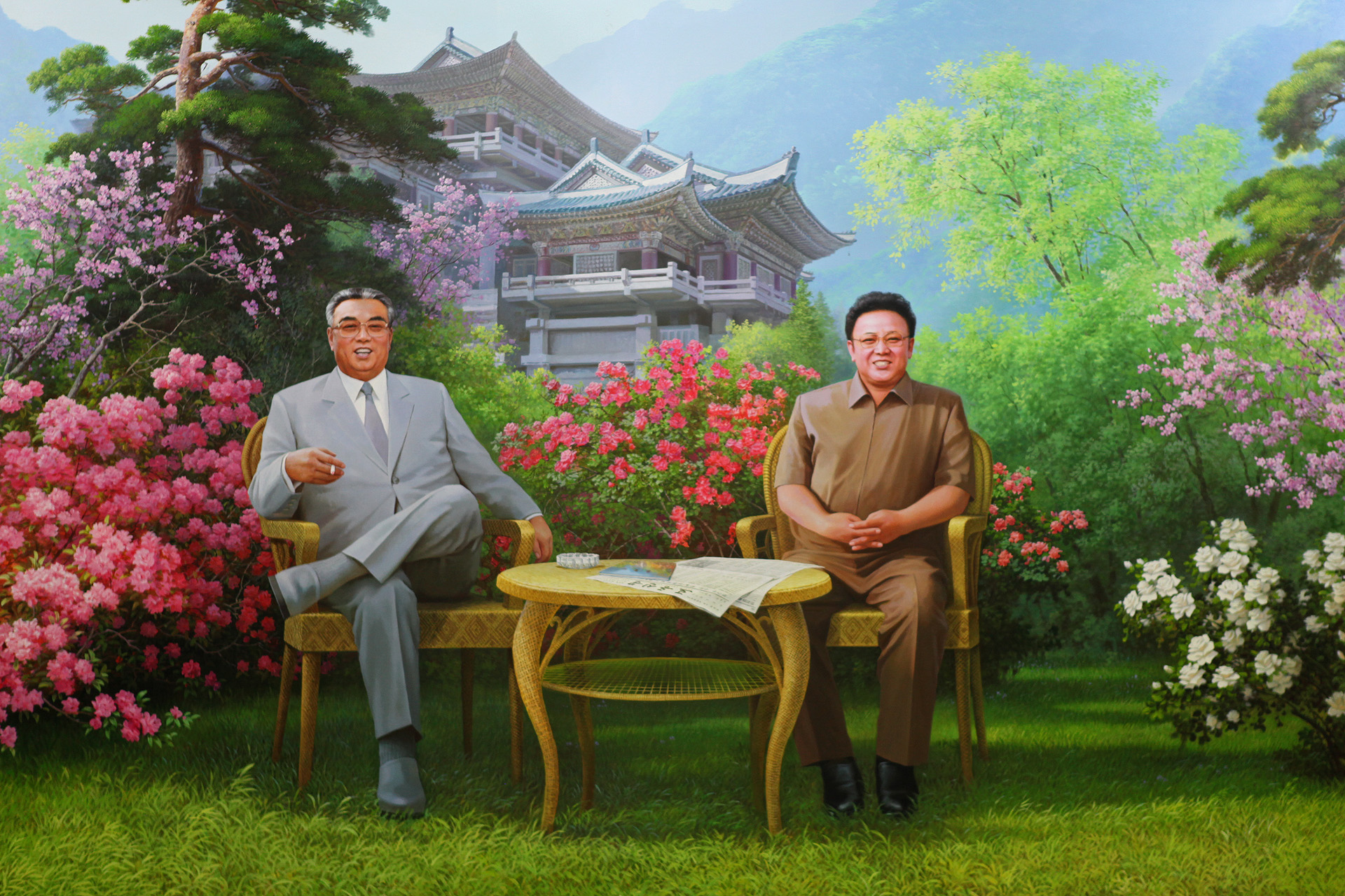 Eternal President and Great Leader together..